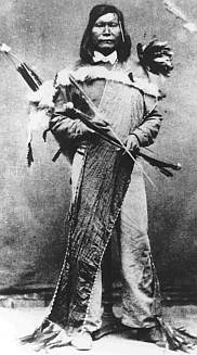 Numaga was the chief during the Paiute war. He was called the Peace Chief.